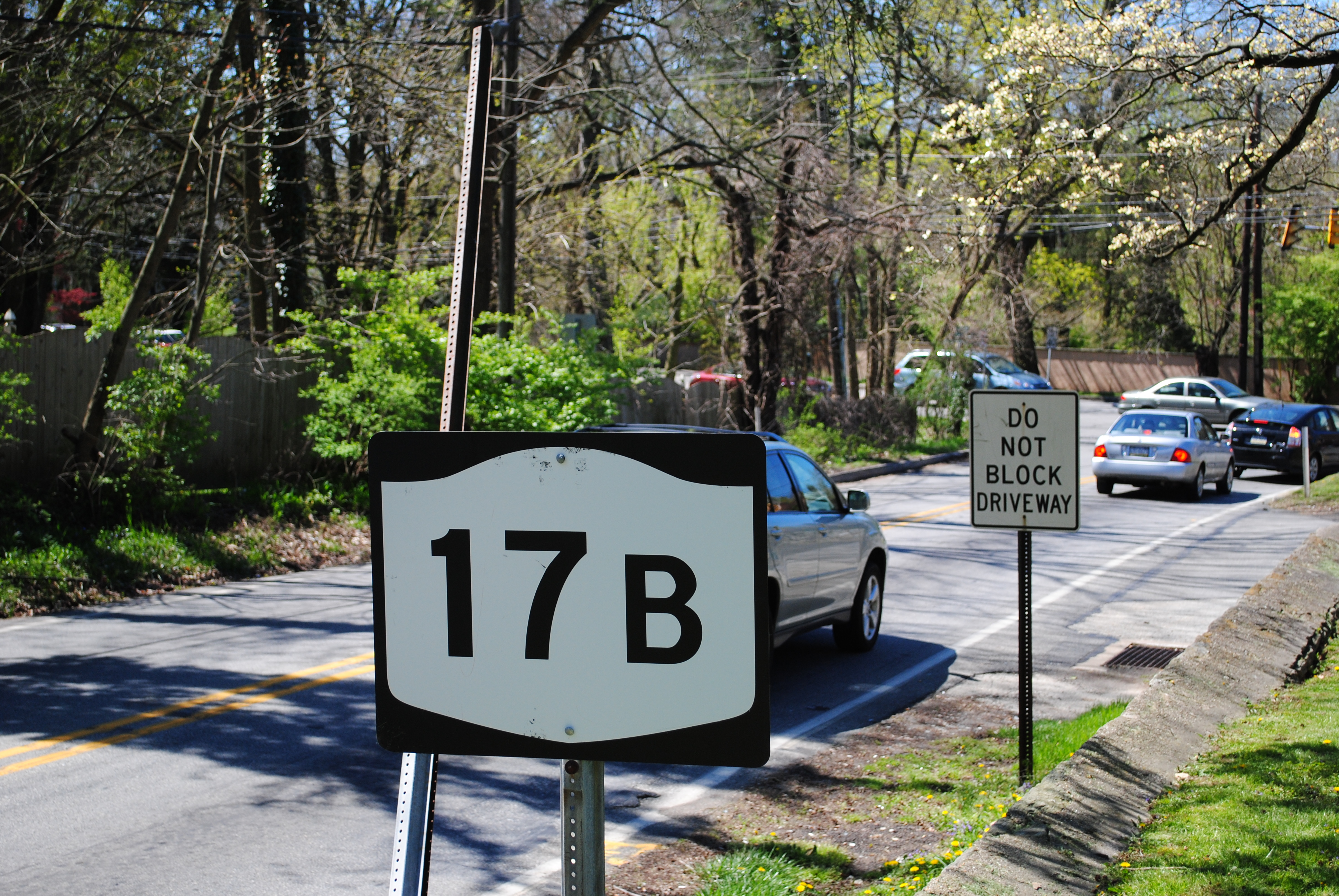 New York State Route 17 B